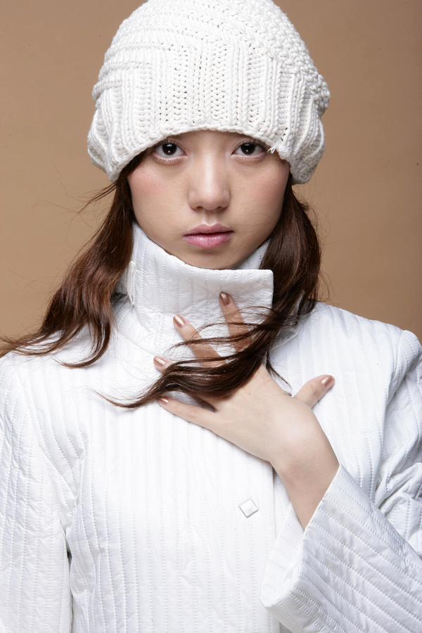 Model in white winter clothing.